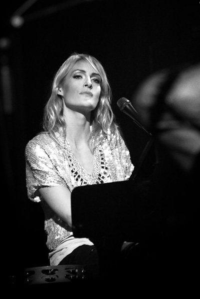 Emily Haynes of Metric performing at the Polaris Music Prize Gala 2009